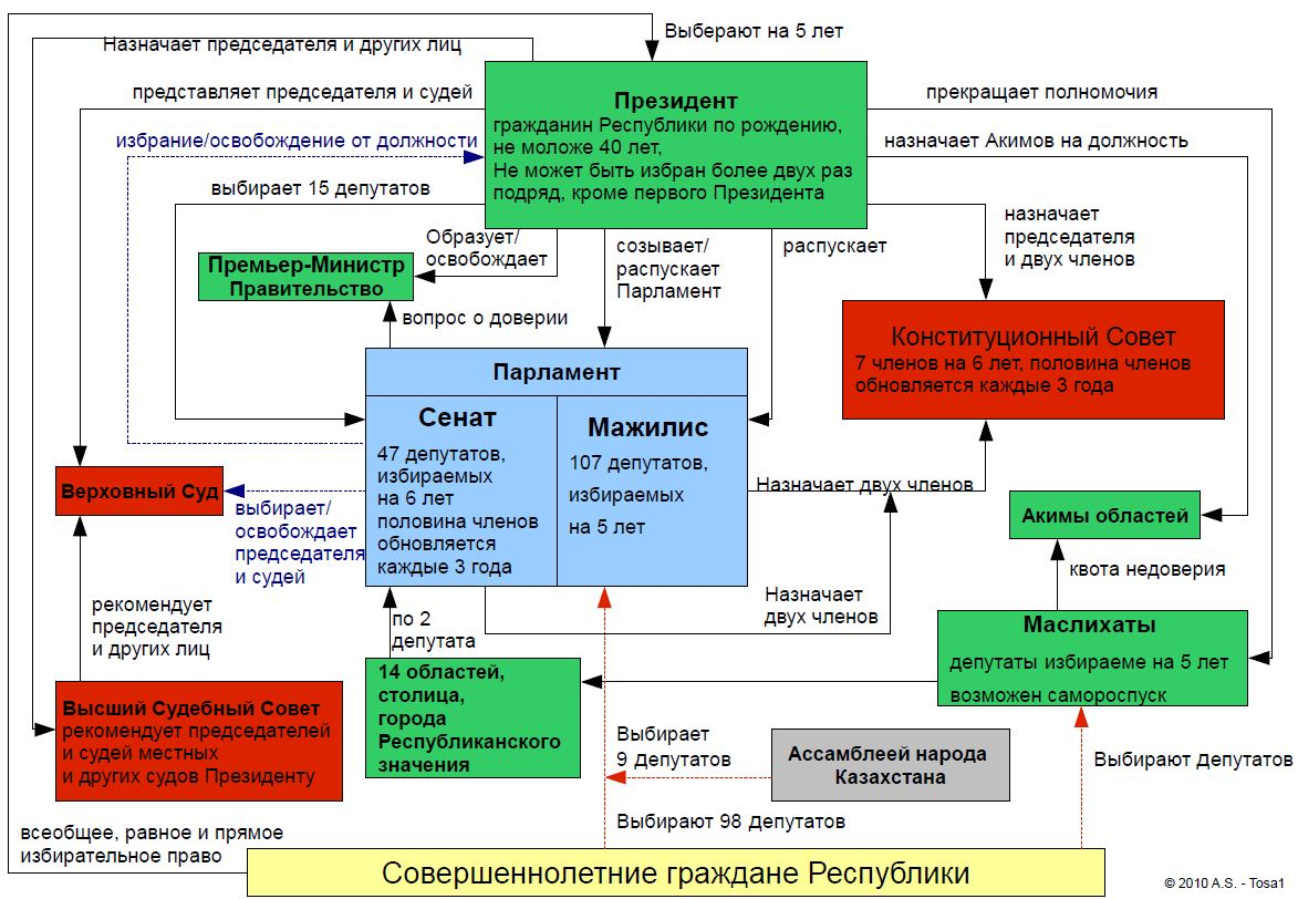 Constitution organs of the Republic of Kazakhstan represented in a scheme.